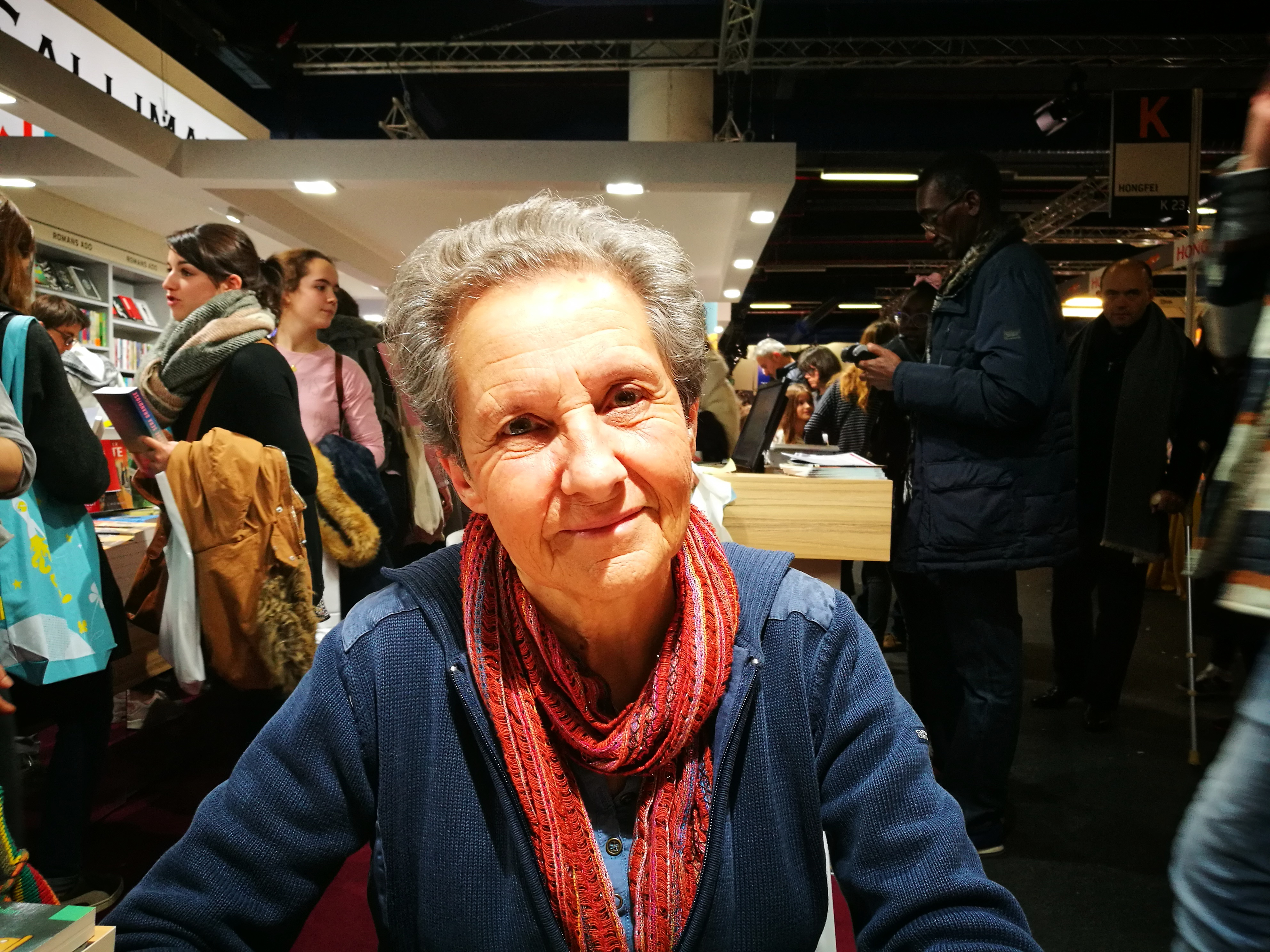 French writer Évelyne Brisou-Pellen at the Gallimard Jeunesse booth of the Salon du Livre et de la Presse Jeunesse at Montreuil, France.